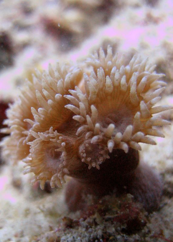 young Stony coral colony